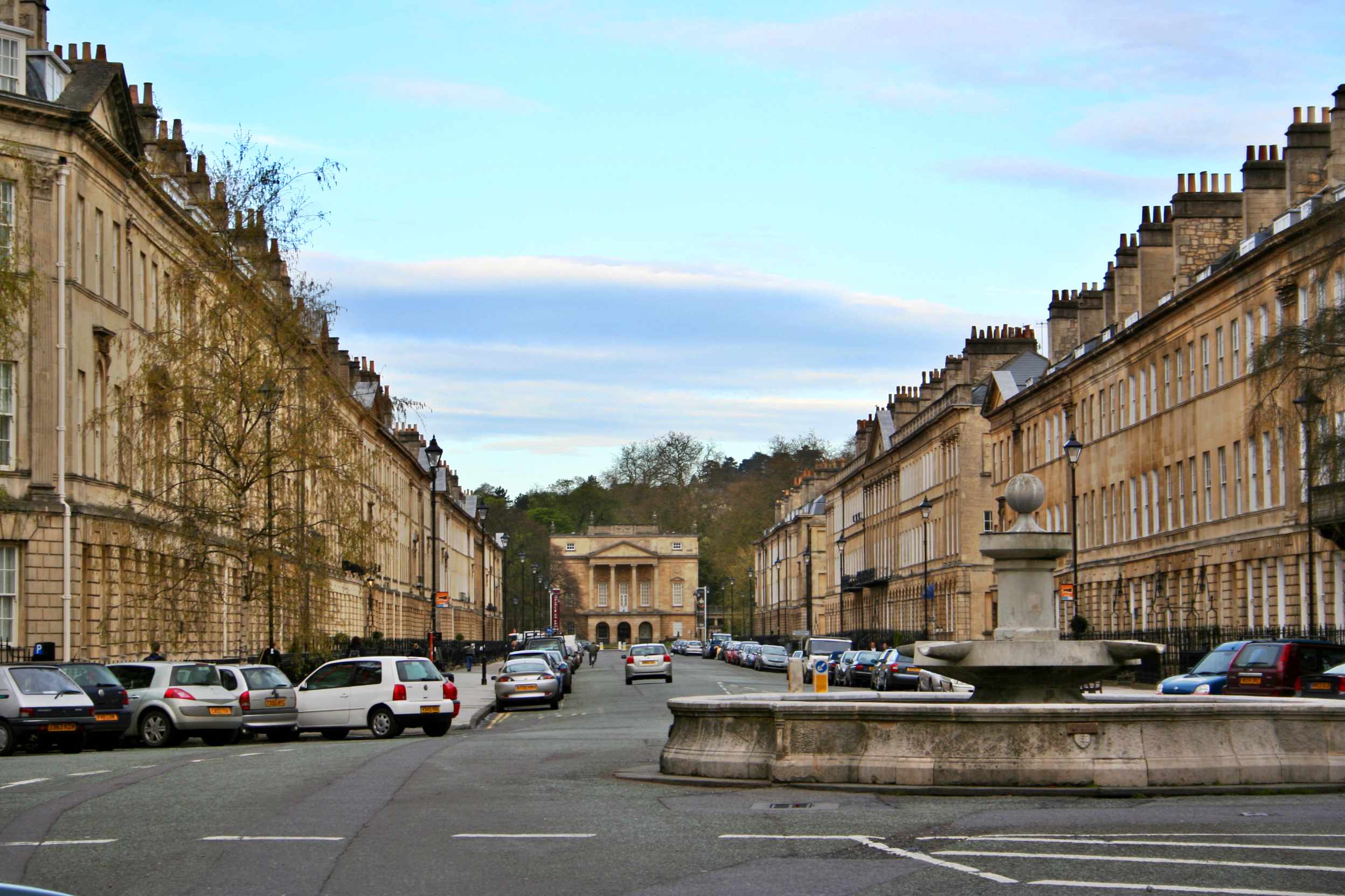 Great Pulteney Street (Laura Place) in Bath, England